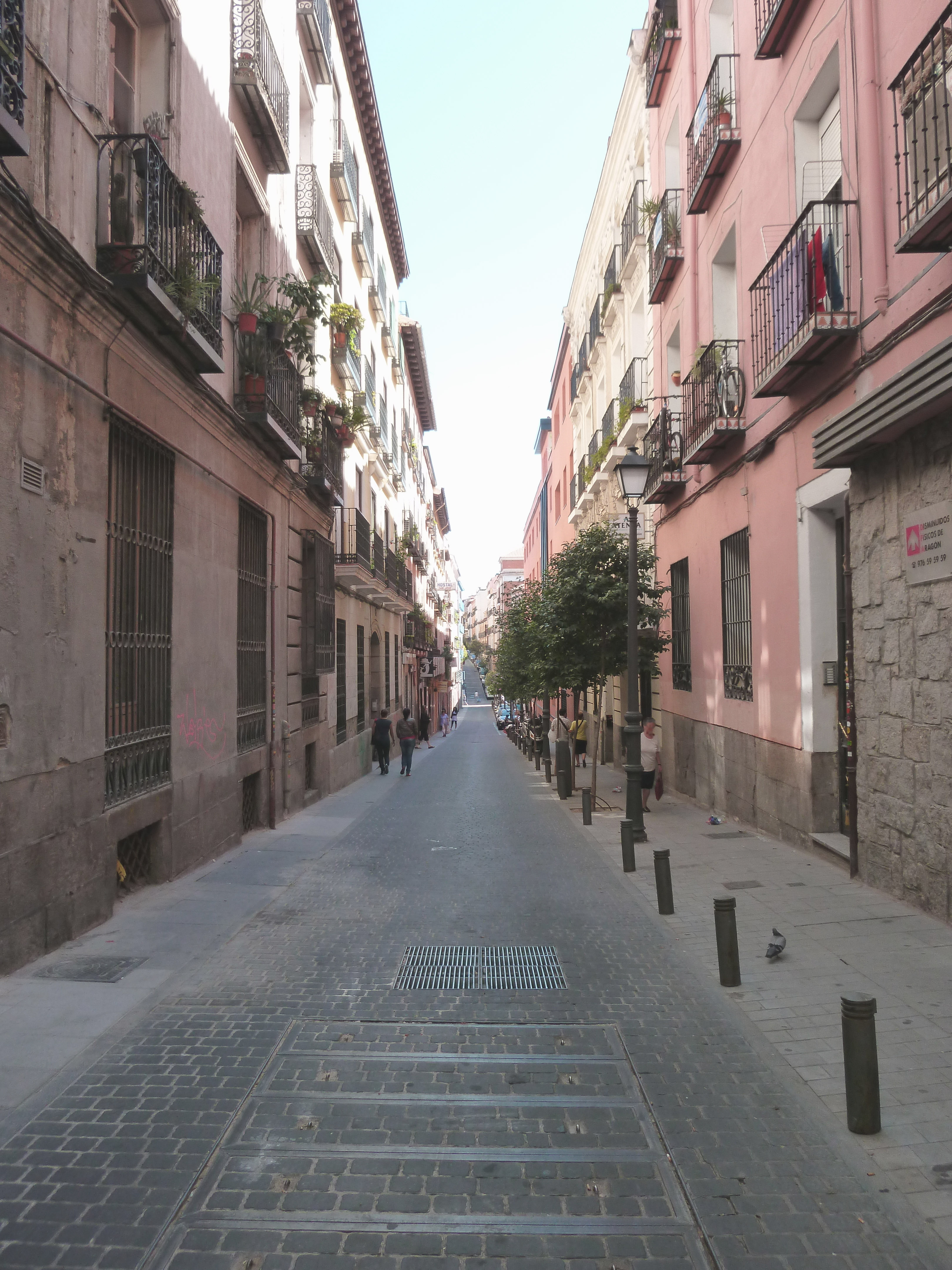 View from Calle de la Madera (street) in Centro district in Madrid (Spain).